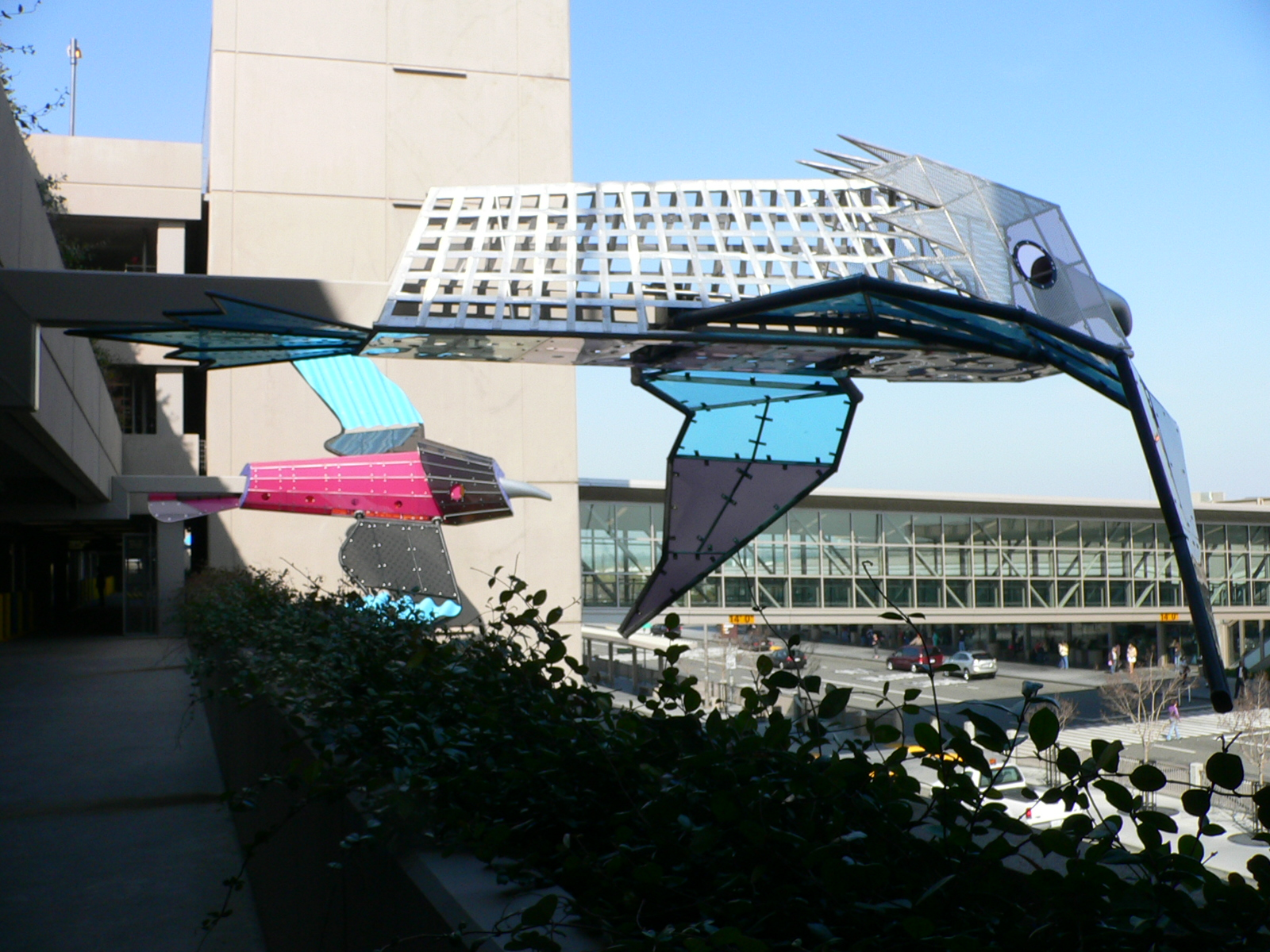 Sculptures attached to the parking garage